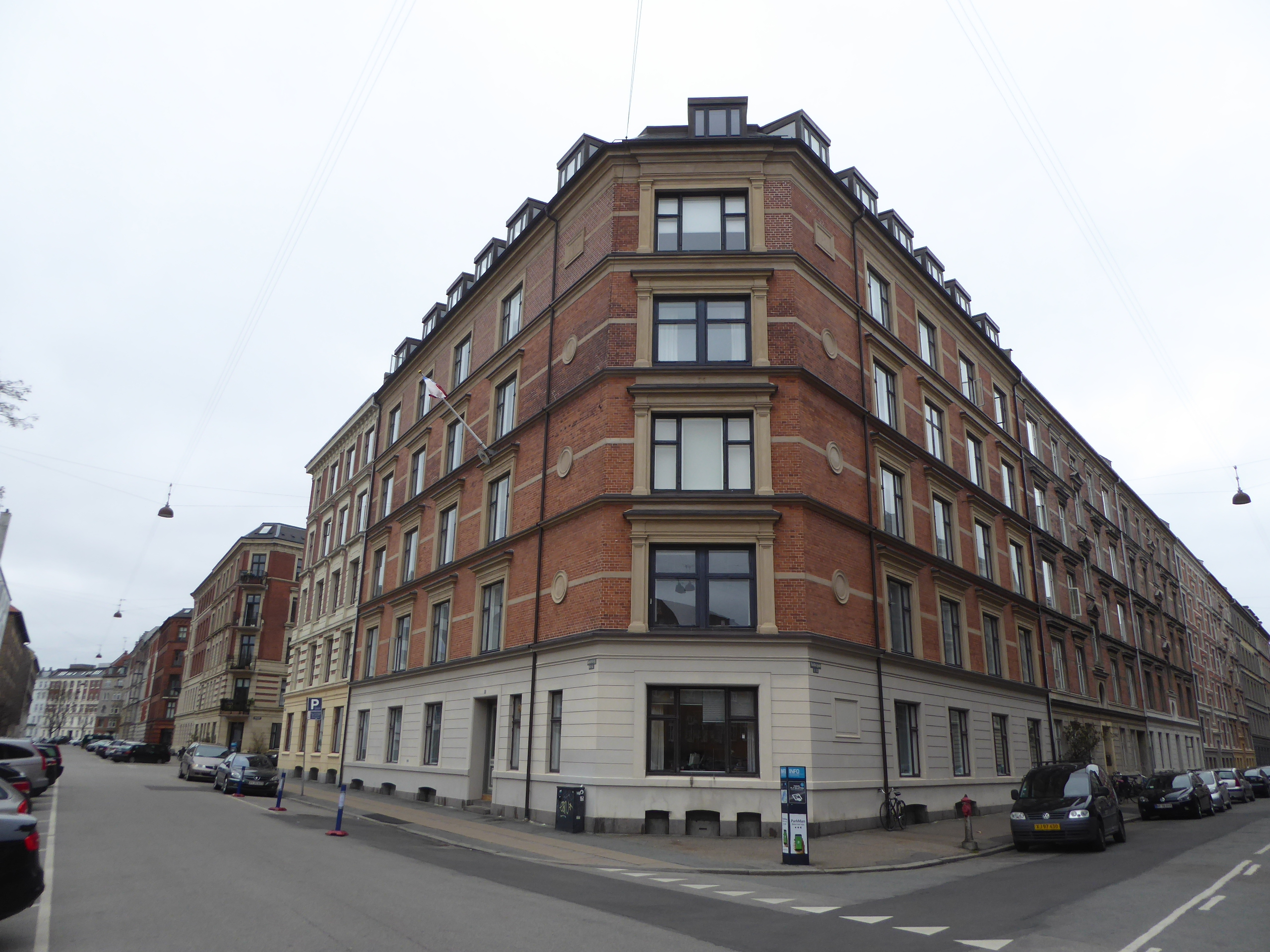 Apartment building with the embassy of Chile at the corner of Kastelsvej and Nordborggade in Østerbro in Copenhagen.